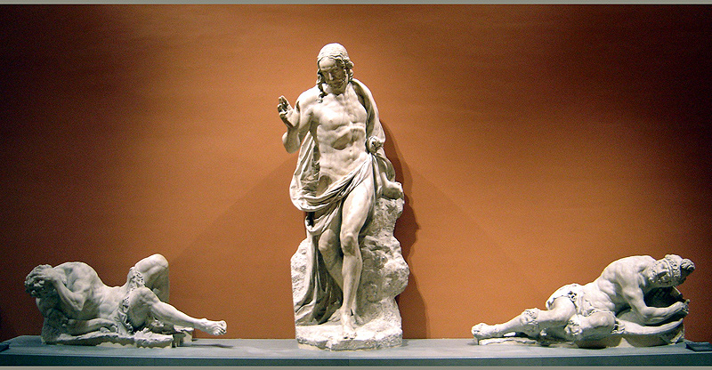 Risen Christ and soldiers. Marble, ca. 1572.